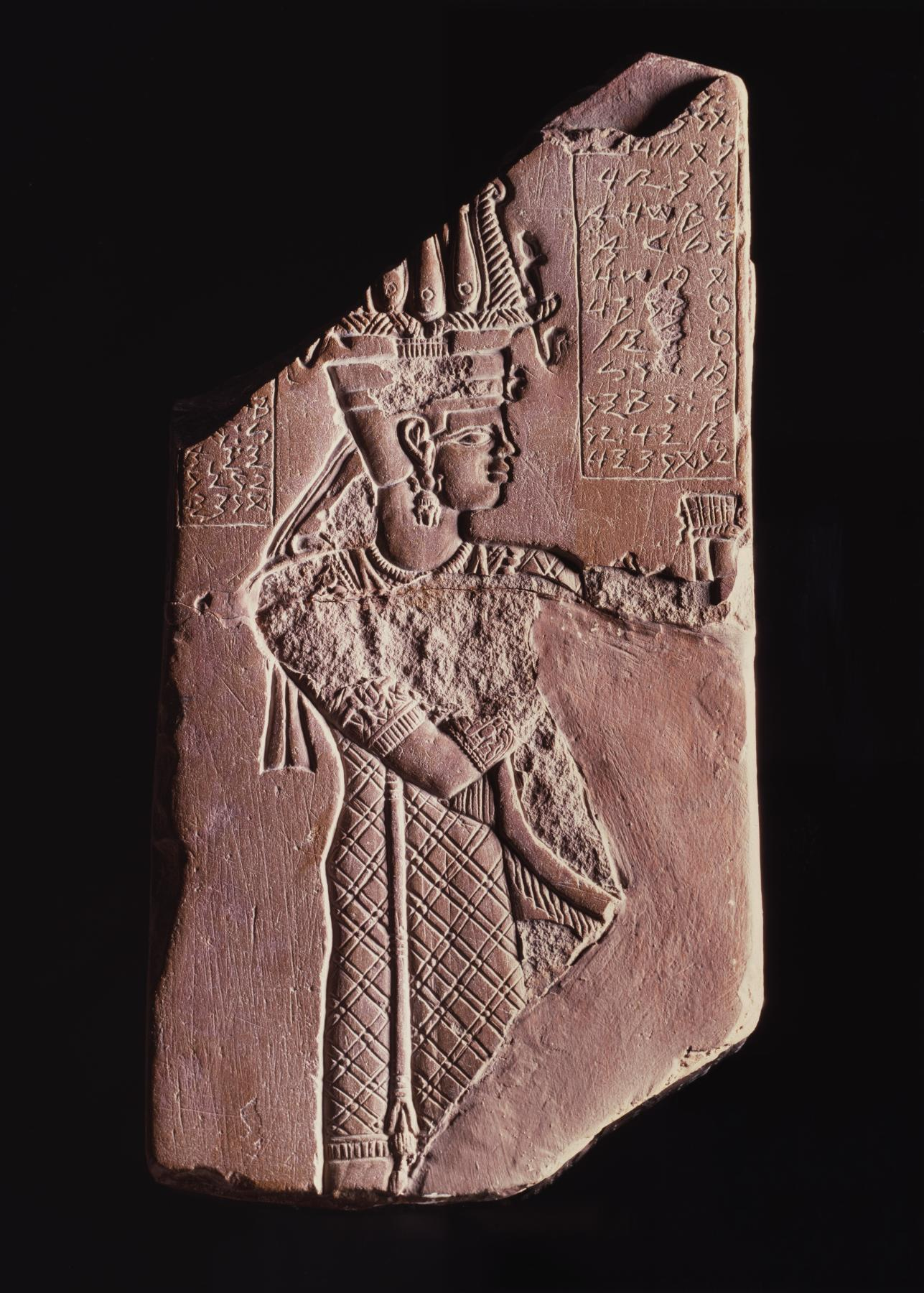 Kingdom, was part of a commemorative monument to King Tanyidamani. One side depicts the ruler in royal costume with ram's-head earrings, an Egyptian crown, and a scepter in his hand. An image of the lion-headed war- and fertility-god Apedemak appears on the other side. The deity holds a bundle of sorghum and a scepter topped with a small seated lion. The inscriptions are in Meroitic script and name the king and the god.